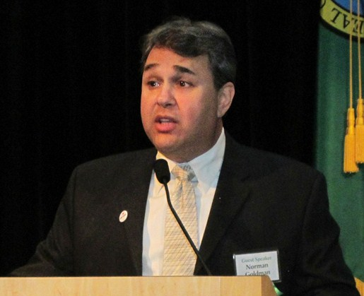 June 2011 - Guest Speaker radio talk show host Norman Goldman speaks of the Supreme Court's overreaching in the Citizens United vs. FEC decision.